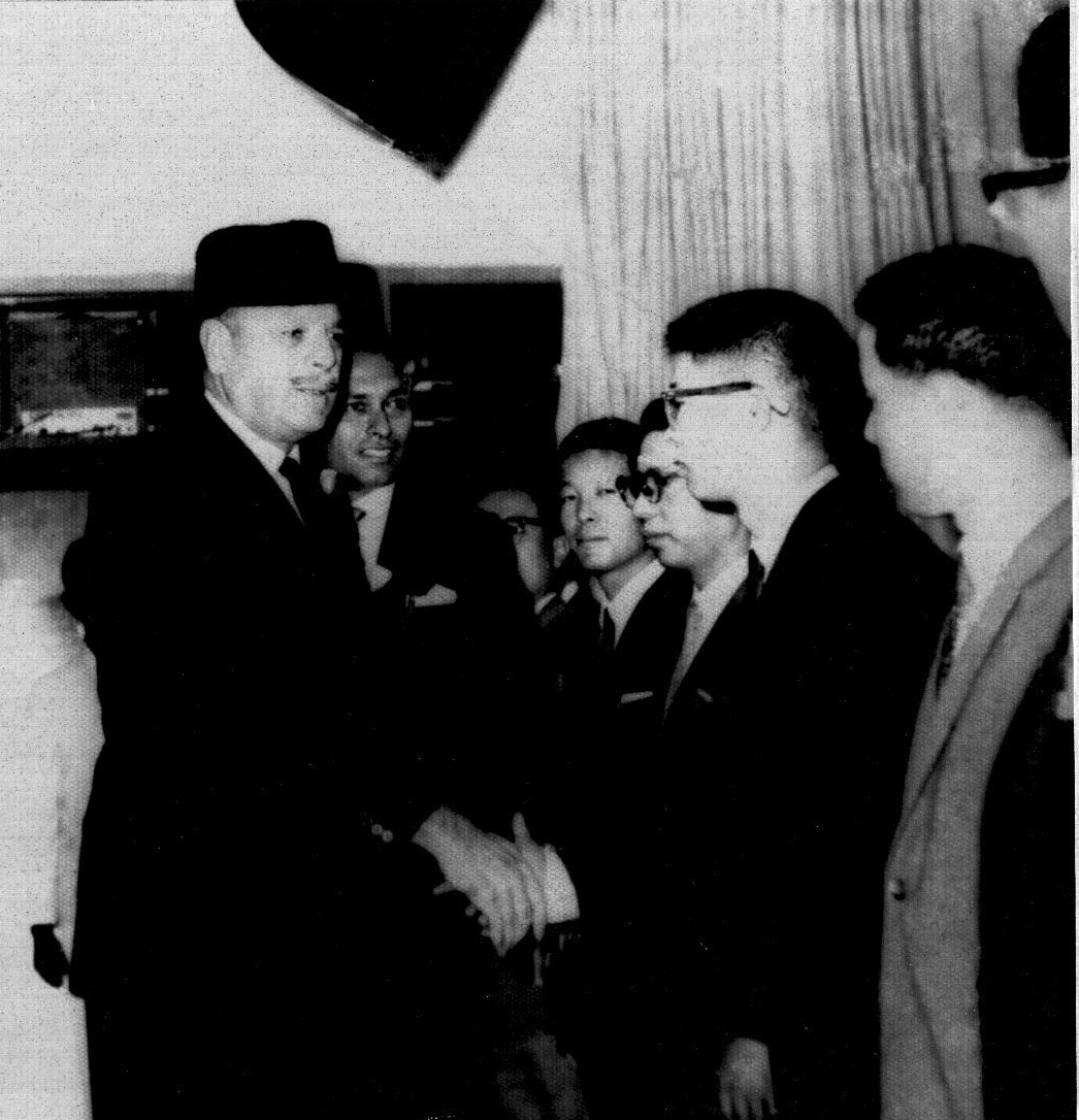 Photo taken of President of Pakistan Ayub Khan and Ubaidur Rahman (Founder PTV) in 1964 at Pakistan Television Inauguration, unknown photographer.